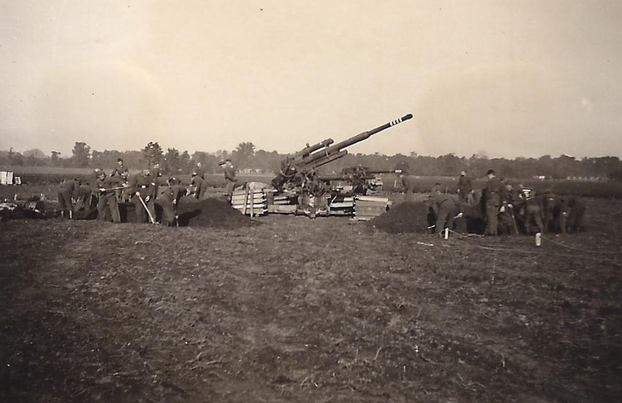 8,8cm-antiaircraft battery in Berlin-Karow, Gun "Emil" in firing position (October 1943)